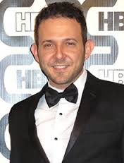 Nick Saglimbeni at the Golden Globes 2013